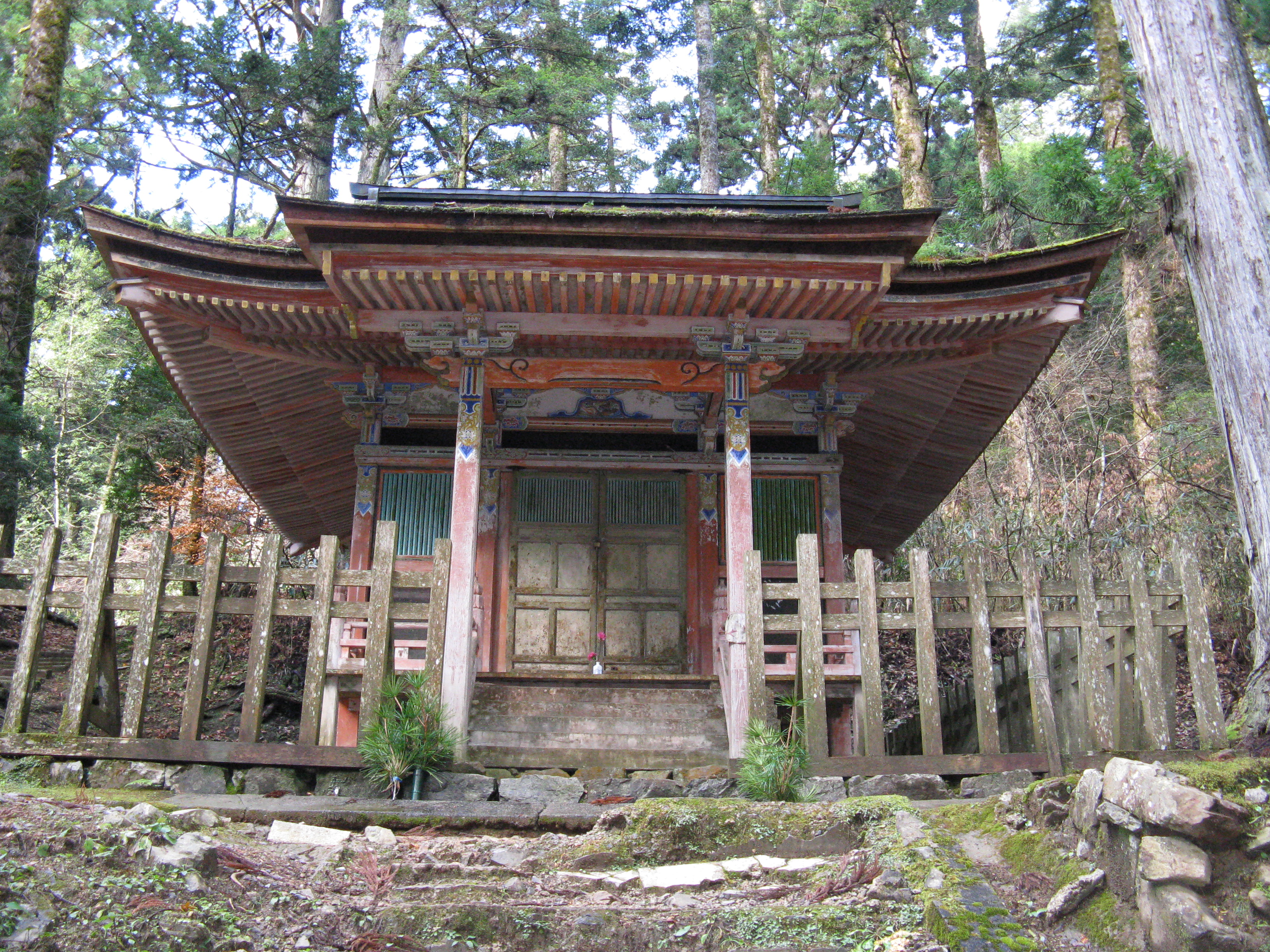 Uesugi Kenshin's Mausoleum, Mount Kōya